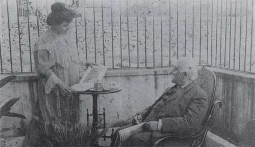 Adelaide Bernardini (1872 - 1944) with her husband Luigi Capuana (1839 - 1915)